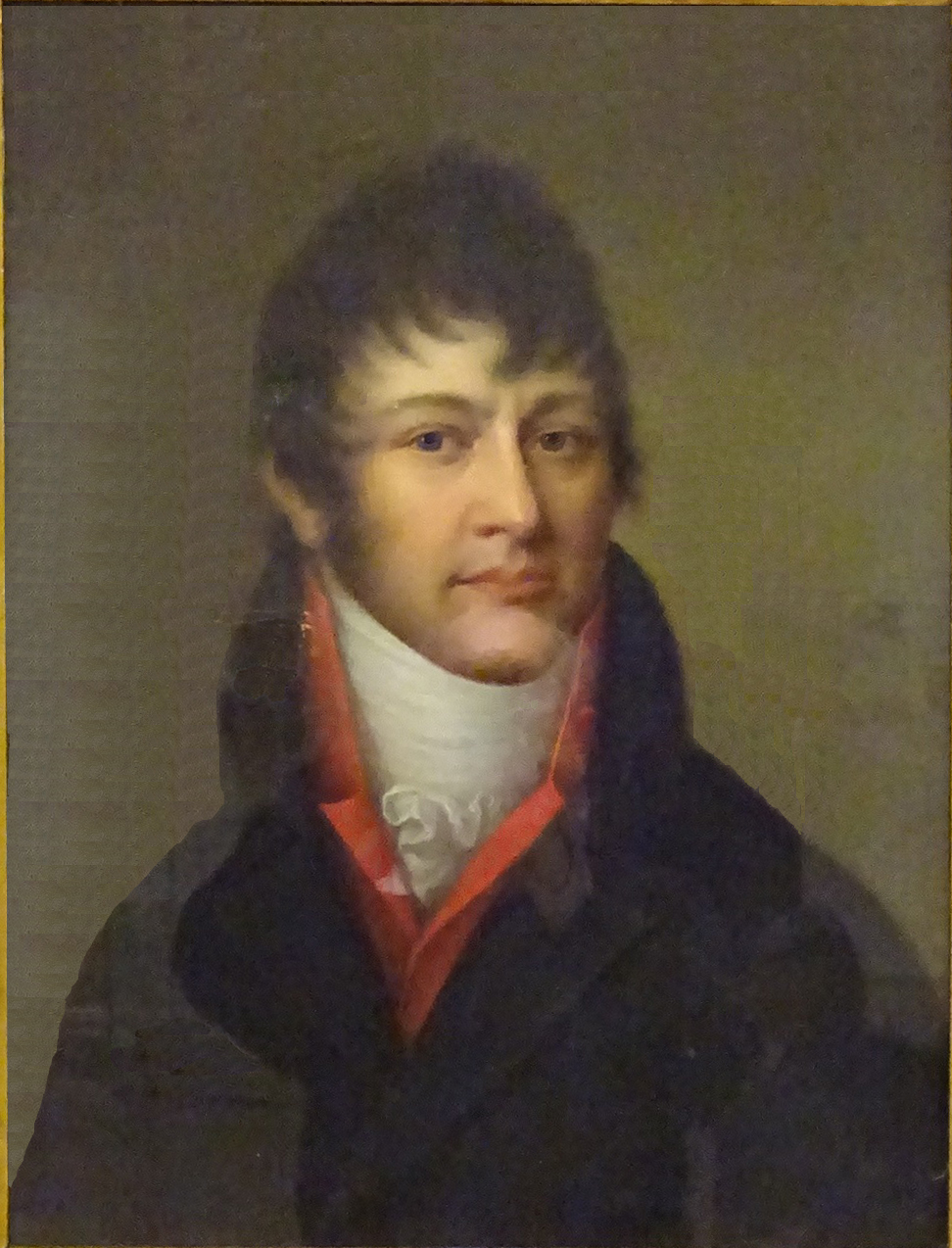 Vasiliy Petrovich Sheremetev (1765—1808)